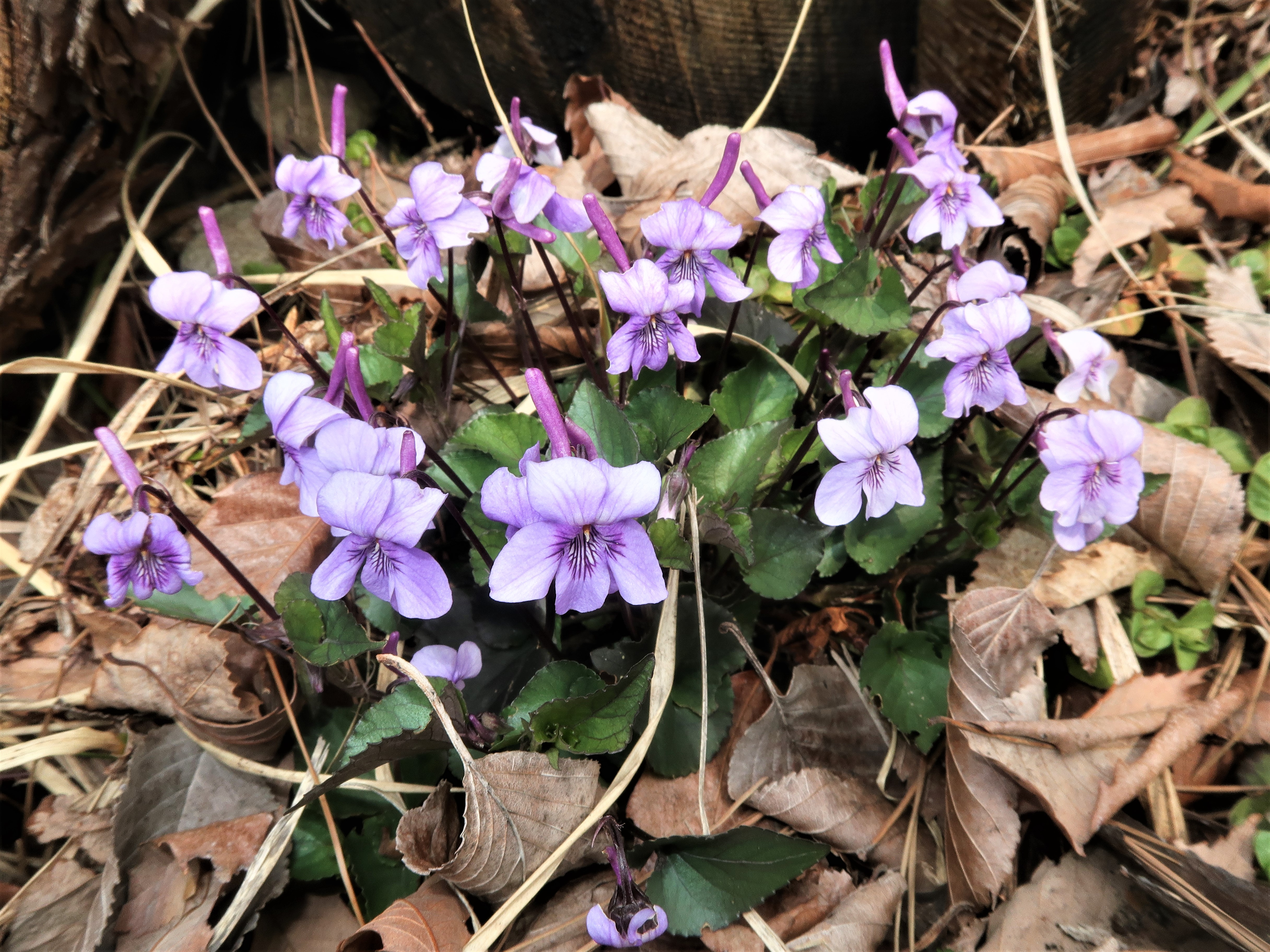 Viola rostrata subsp. japonica, Aizu area, Fukushima pref., Japan